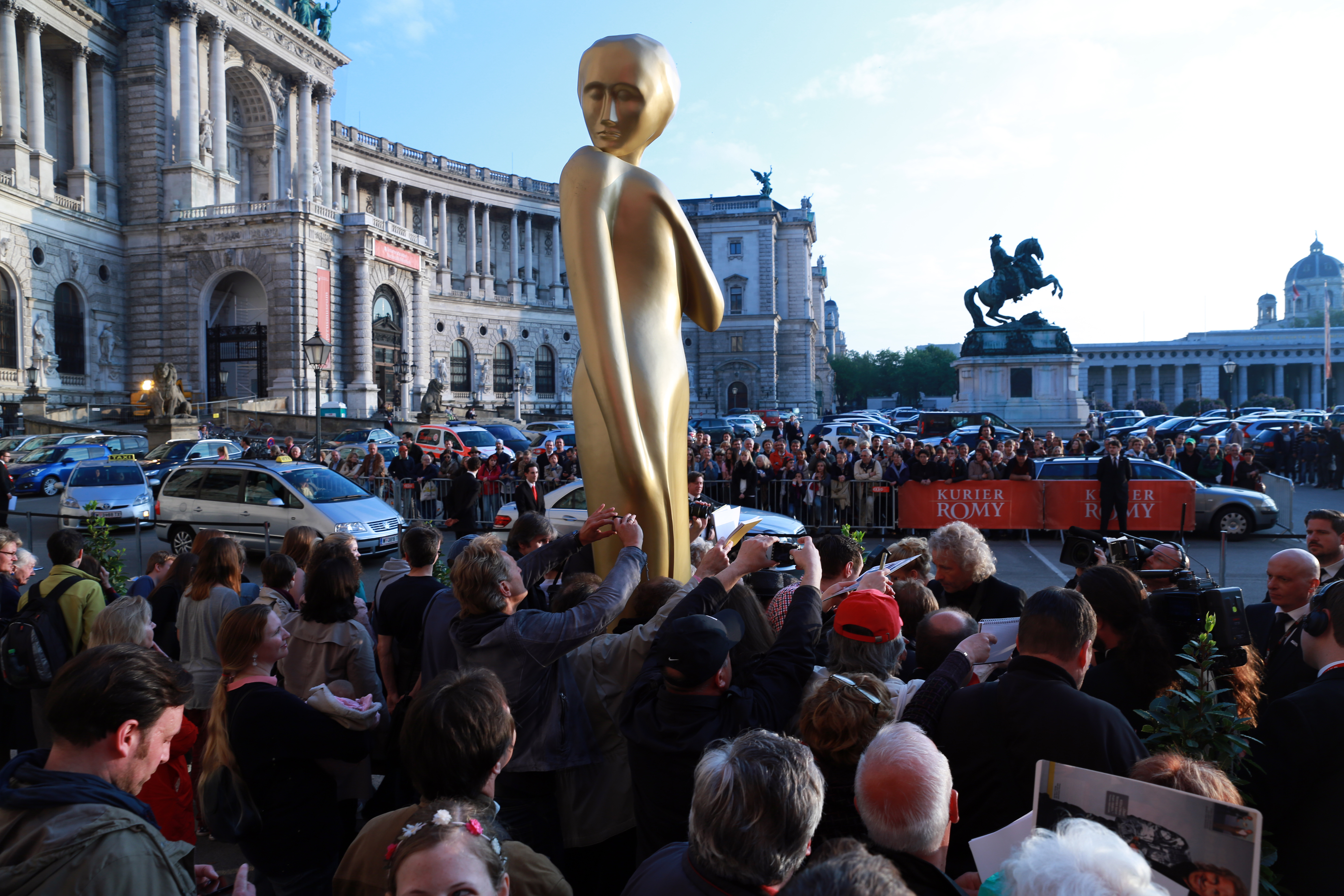 Thomas Gottschalk at the Romy film awards 2014 (Hofburg Imperial Palace in Vienna)